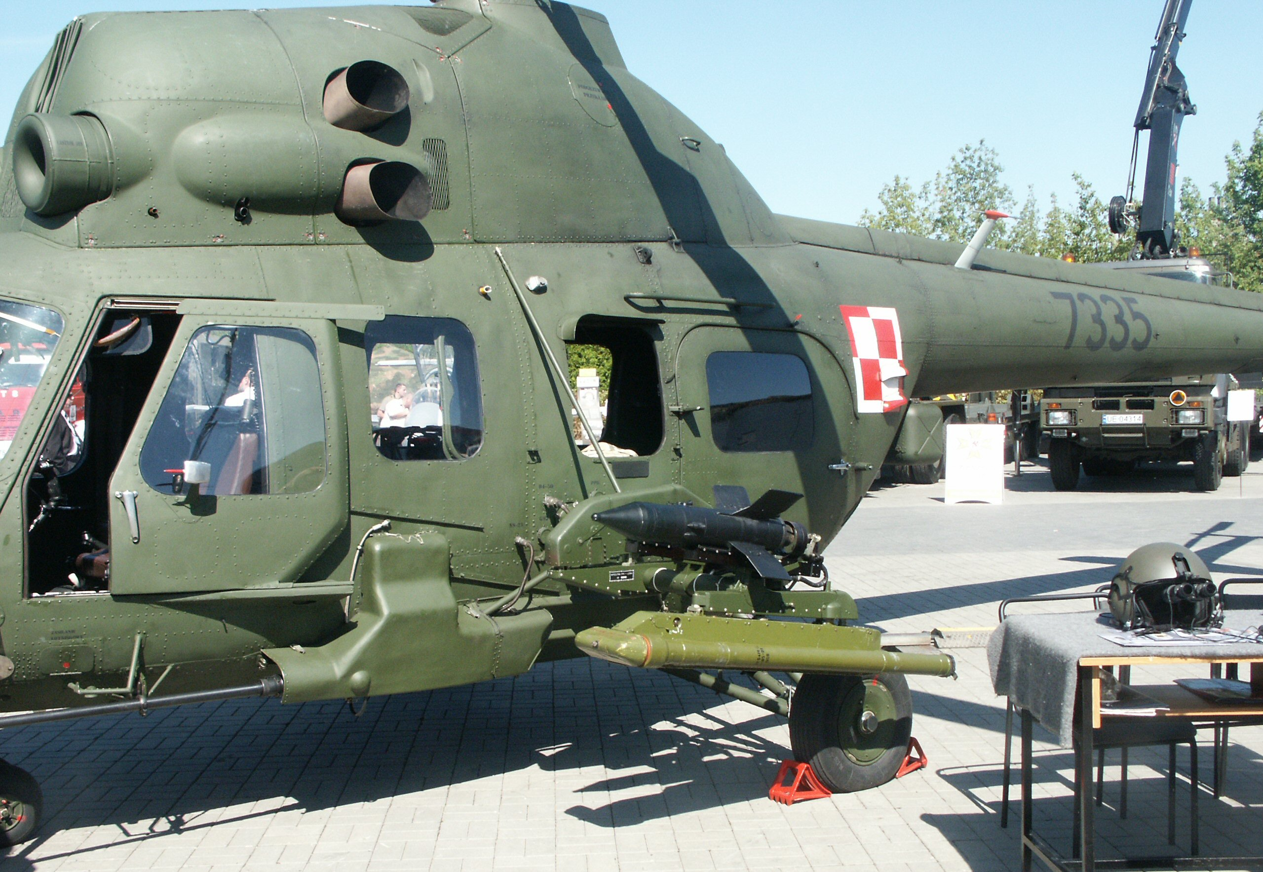 Polish attack helicopter Mil Mi-2URP-G.